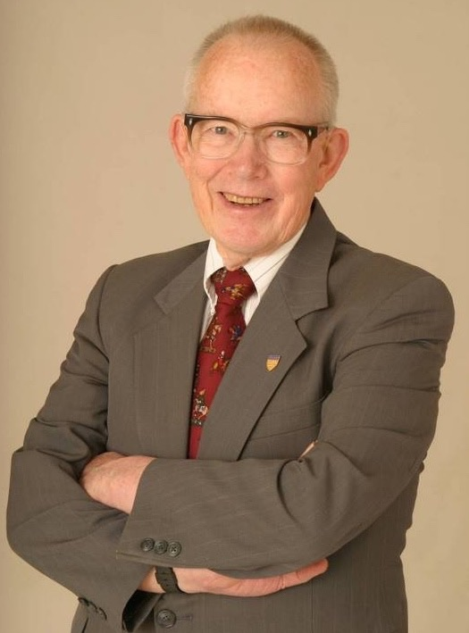 Donald Van Norman Roberts, abt 2005